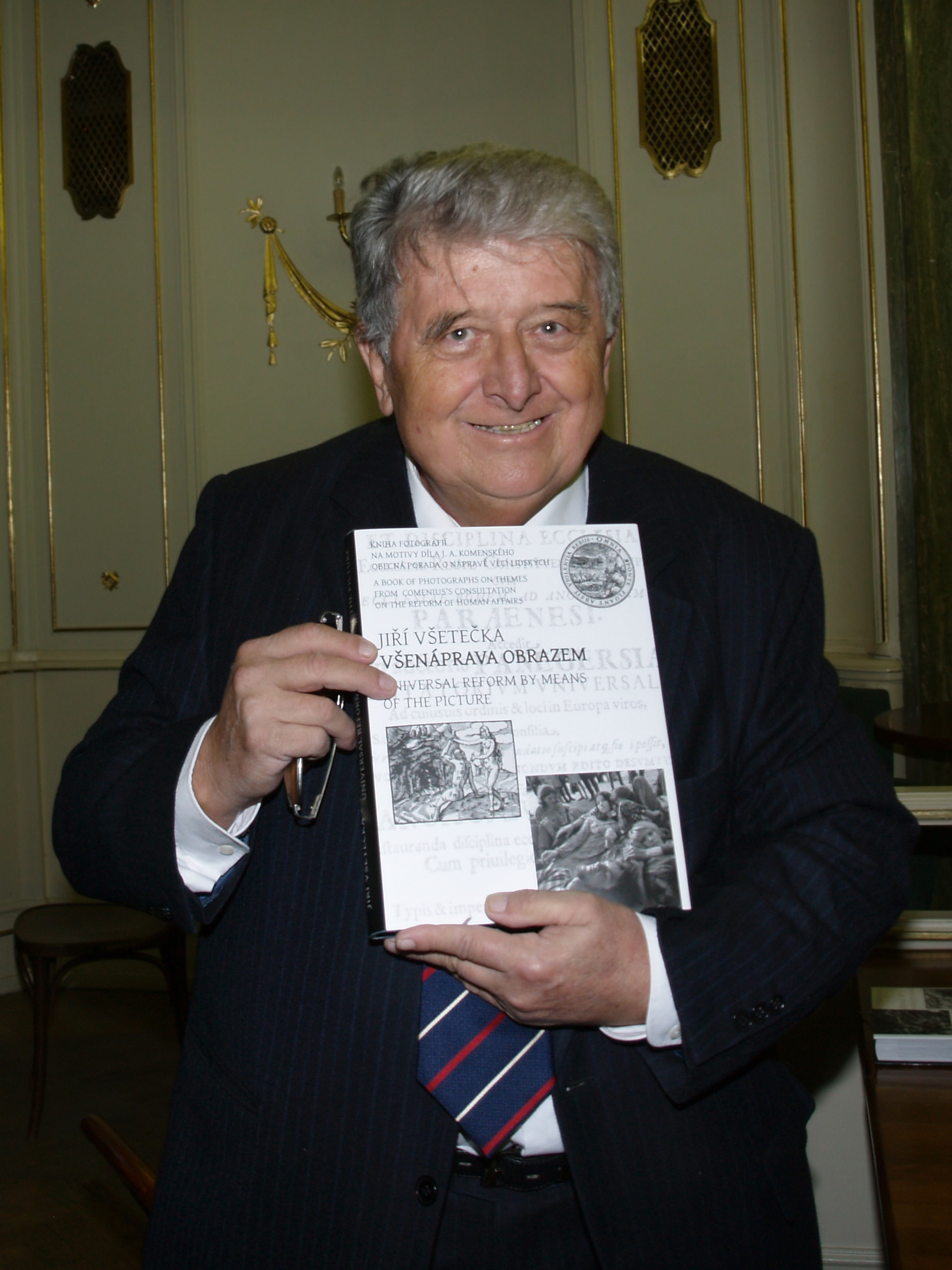 Jiří Všetečka, Czech photographer